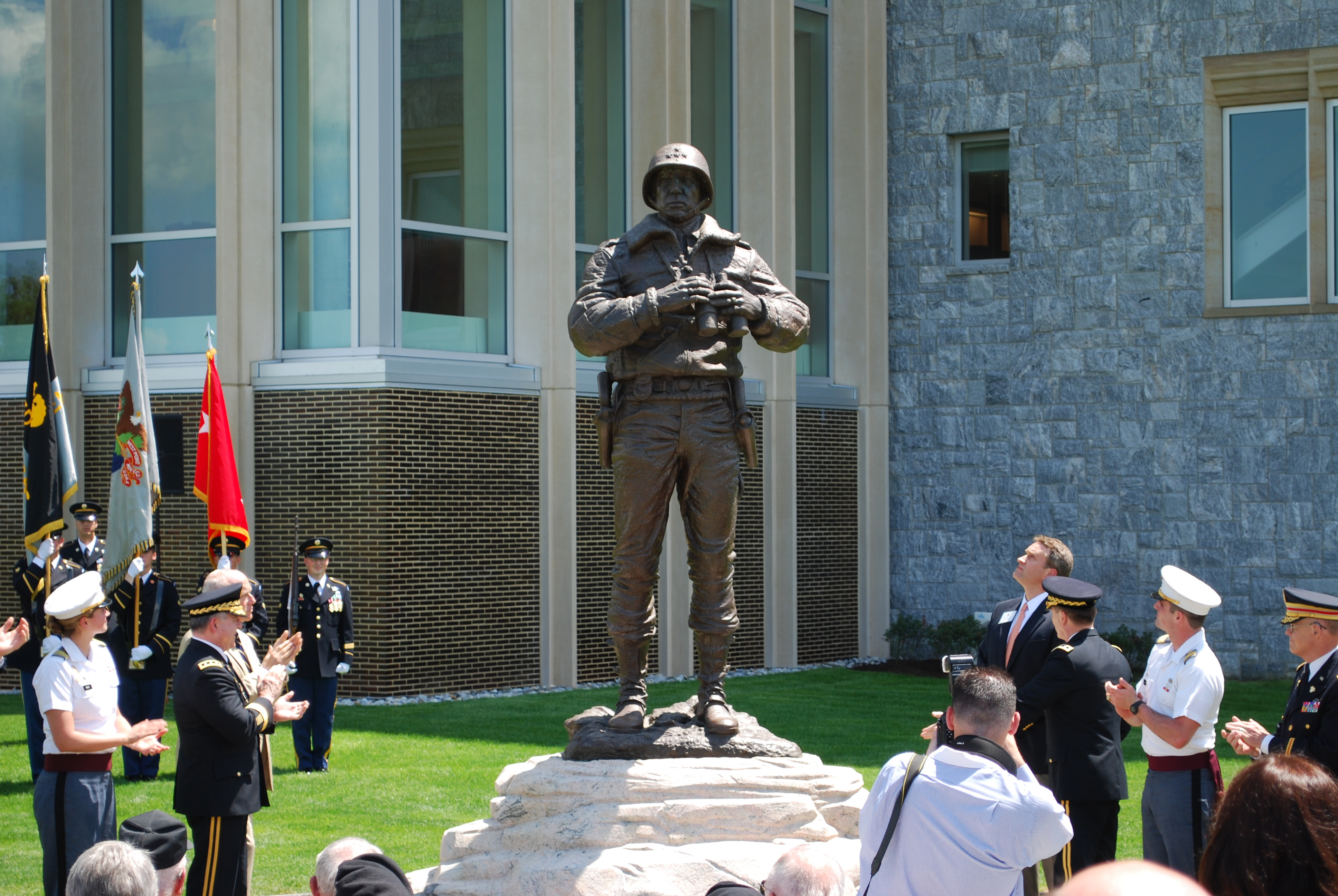 George S. Patton monument rededicated in its new temporary location by Patton's grandson and LTG Franklin L. Hagenbeck